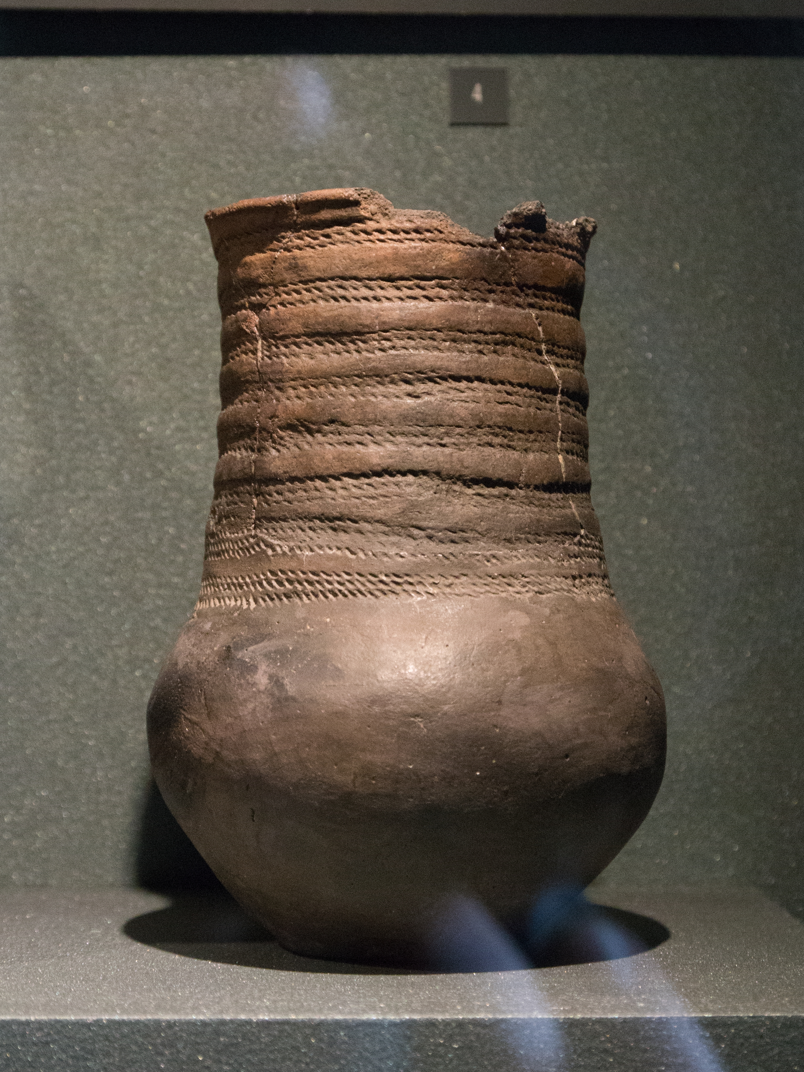 A Corded Ware culture beaker of the Eneolithic period, height 170 mm, from Velké Přílepy, Kamýk. The City of Prague Museum, inv. no. P0000486.